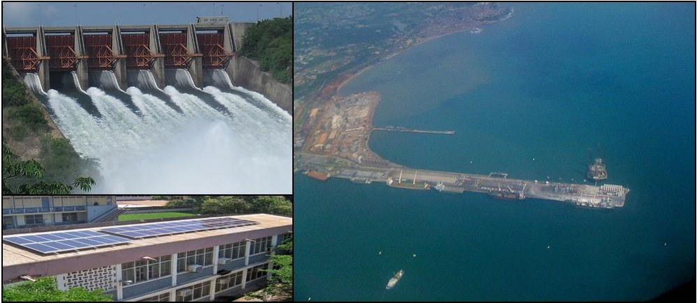 Collage of the Energy Economy and Electricity Generation of Ghana: 1. Akosombo Dam, in Eastern Ghana. 2. Solar Energy and Solar Panels, in Ashanti, Ghana. 3. Aerial view of an Oil platform, in Western Ghana.